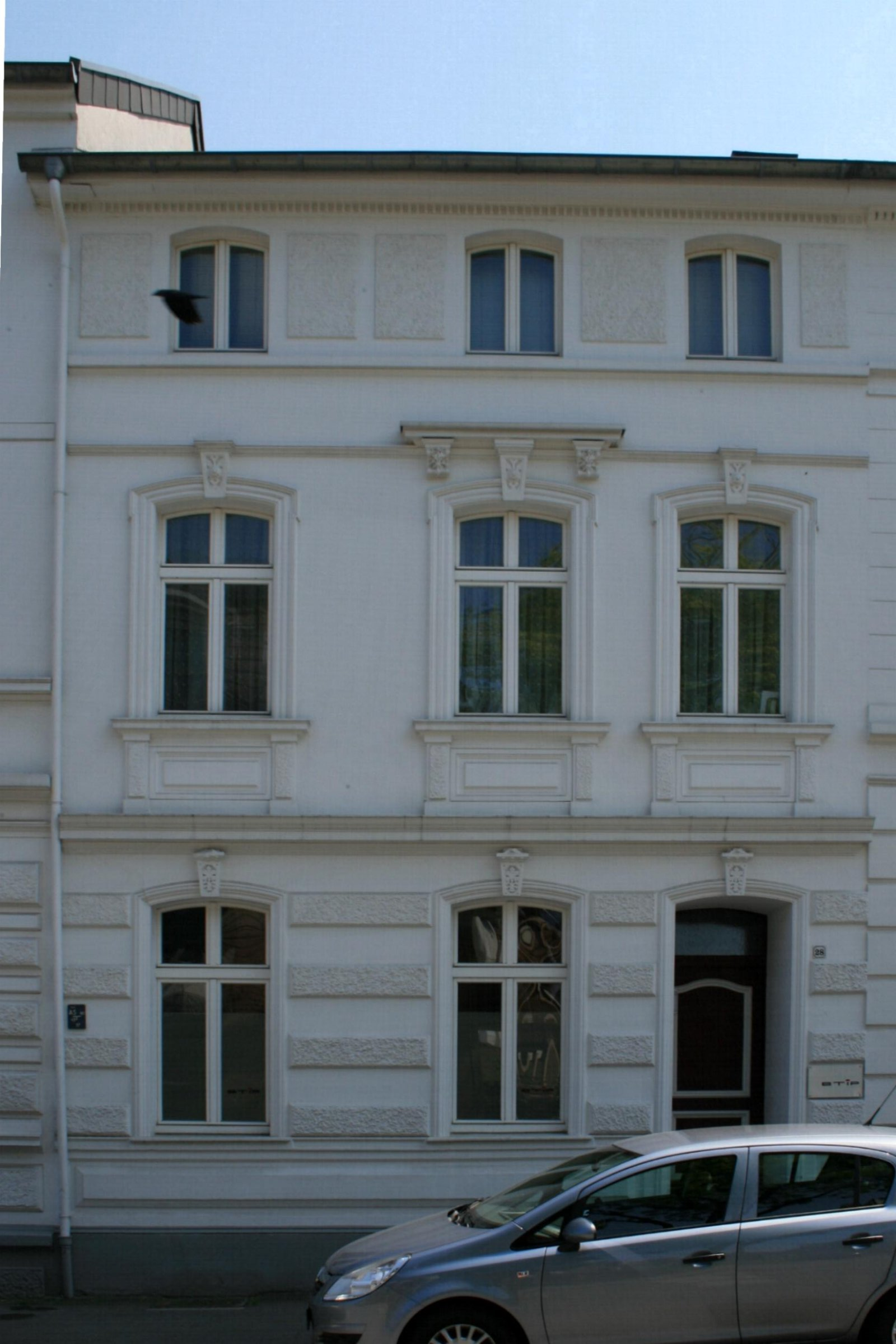 Cultural heritage monument No. Sch 017 in Mönchengladbach